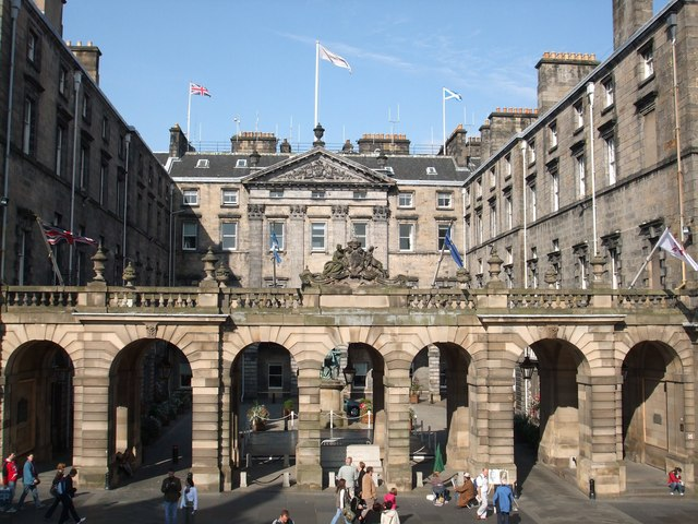 Edinburgh City Chambers photographed from the Mercat Cross.